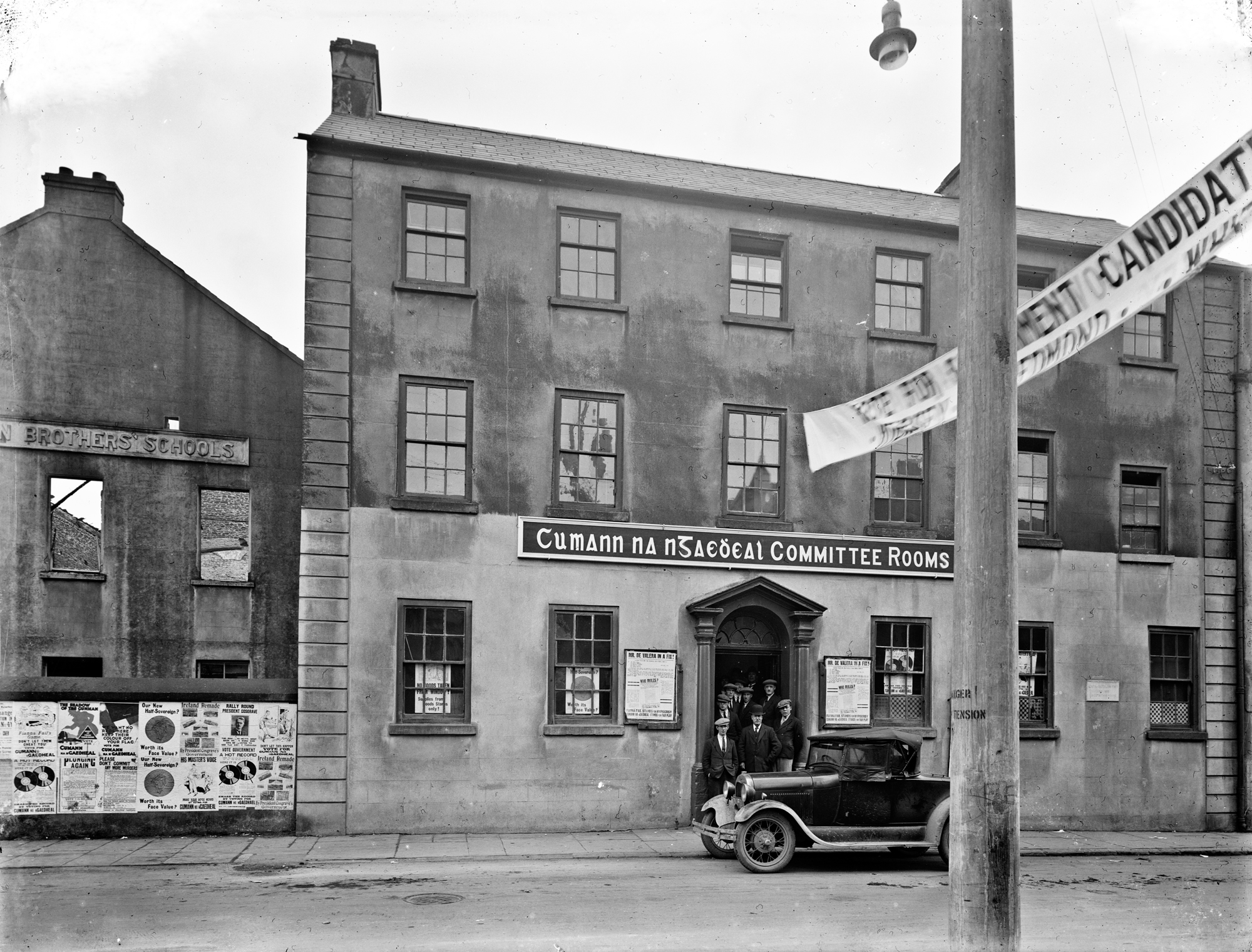 A photograph from the Poole collection which denotes Waterford, but with streams of posters to provide further information. If memory serves, Cumann na nGaedhael changed their name following the election around the time of this image. With thanks to today's contributors, we have confirmation that this building (now gone) stood on Manor Street in Waterford. The posters visible demonstrate the divisive post-Civil War politics and the lead-up to the 1932 general election - which saw WT Cosgrave's Cumann na nGaedhael party defeated and the first Fianna Fáil government of the relatively young state... Photographer: A. H. Poole Collection: Poole Photographic Studio, Waterford Date: c.15 February 1932 NLI Ref: POOLEWP 3892 You can also view this image, and many thousands of others, on the NLI’s catalogue at